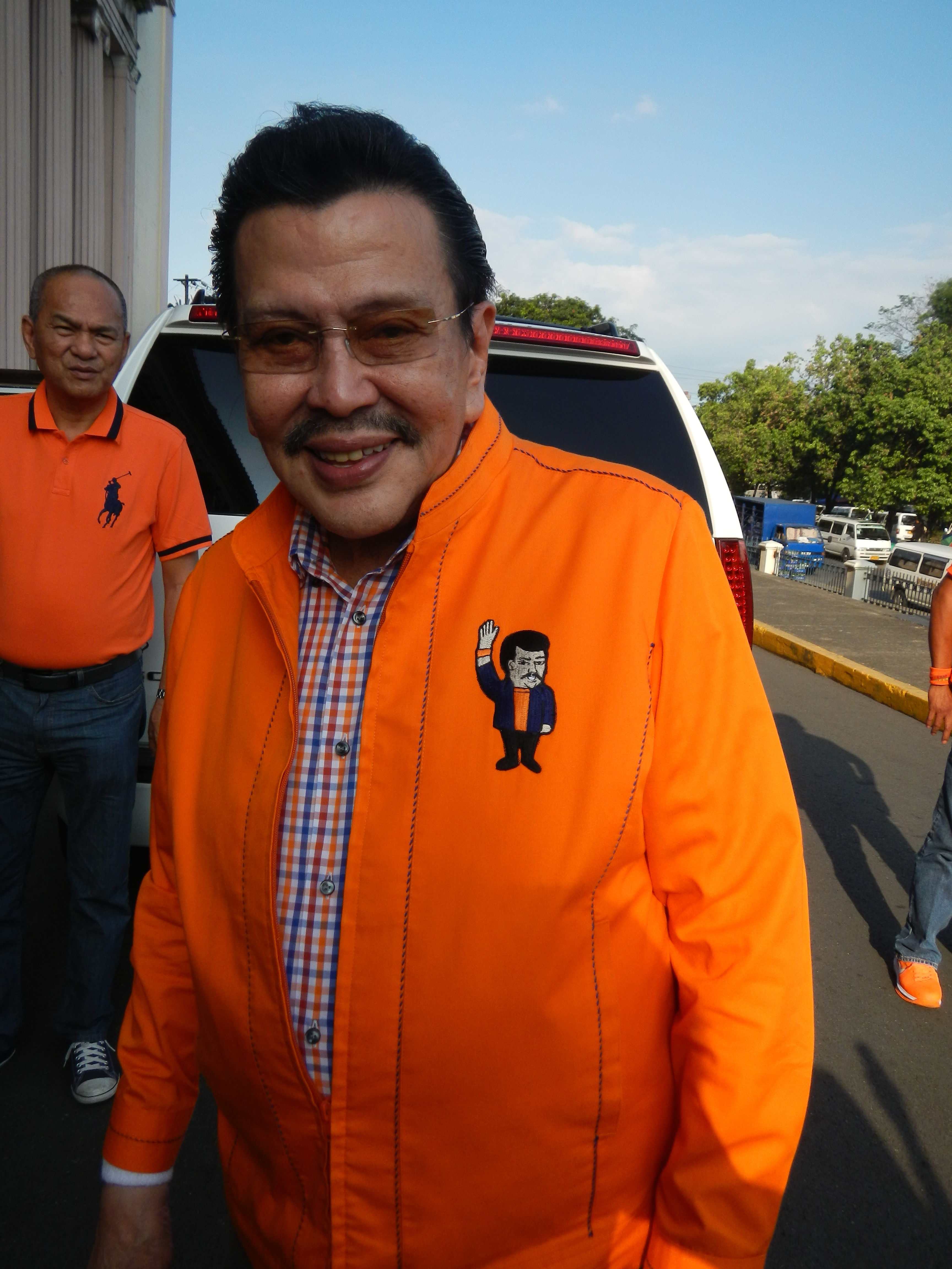 4:20 p.m., March 27, 2012 Holy Wednesday photo: at the stairs of the 86-year-old Manila Central Post Office[1] Joseph Estrada[2]Joseph "Erap" Ejercito Estrada (born Jose Marcelo Ejercito on April 19, 1937) was the 13th President of the Philippines, serving from 1998 until 2001. Estrada was the first person in the Post-EDSA era to be elected both to the presidency and vice-presidency.) poses for photography during his political sortie around Manila, as he in May 2012, announced his intention to run for Mayor of Manila in the 2013 elections. Running For Re-election In 2013 In May 2012, Joseph Estrada, the former President of the Philippines, announced his intention to run for Mayor of Manila but only for one term in 2013. He intends to run with Domagoso, who is running for re-election as Vice-Mayor.[3] [4][5][6]‘Eraptions’ still wow ’em in campaign -Former President Joseph Estrada—deposed in 2001, charged with plunder and pardoned seven years later—is in familiar territory. It’s another election season and the campaign is his stage in a continuing crusade to redeem himself.At the age of 75, the movie action star turned politician was clearly in his element during the United Nationalist Alliance rally on Sunday night. He cracked one “Eraption” after another with impeccable timing and delivery, even if many of them had been heard before.